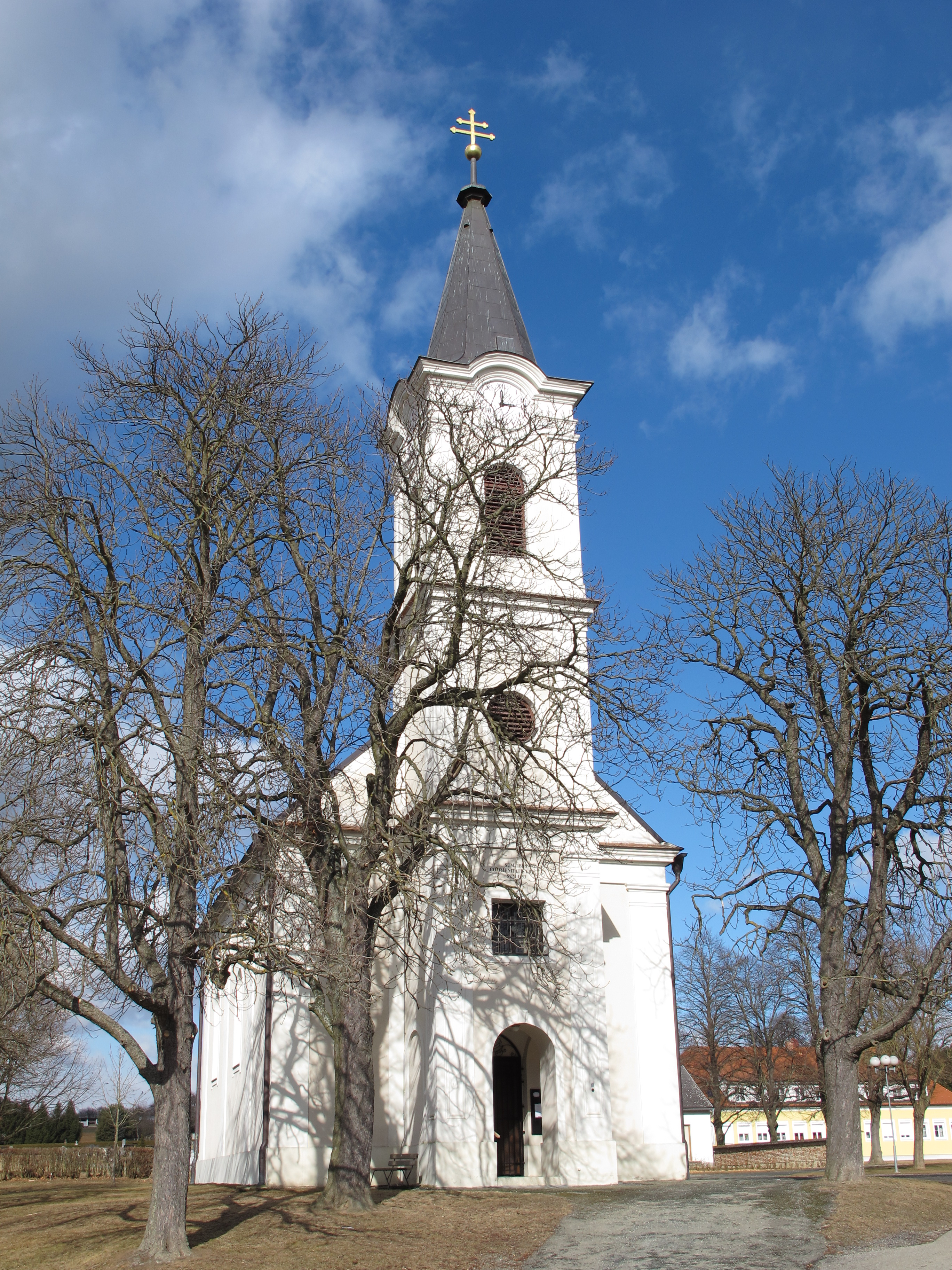 Kirche Rauchwart